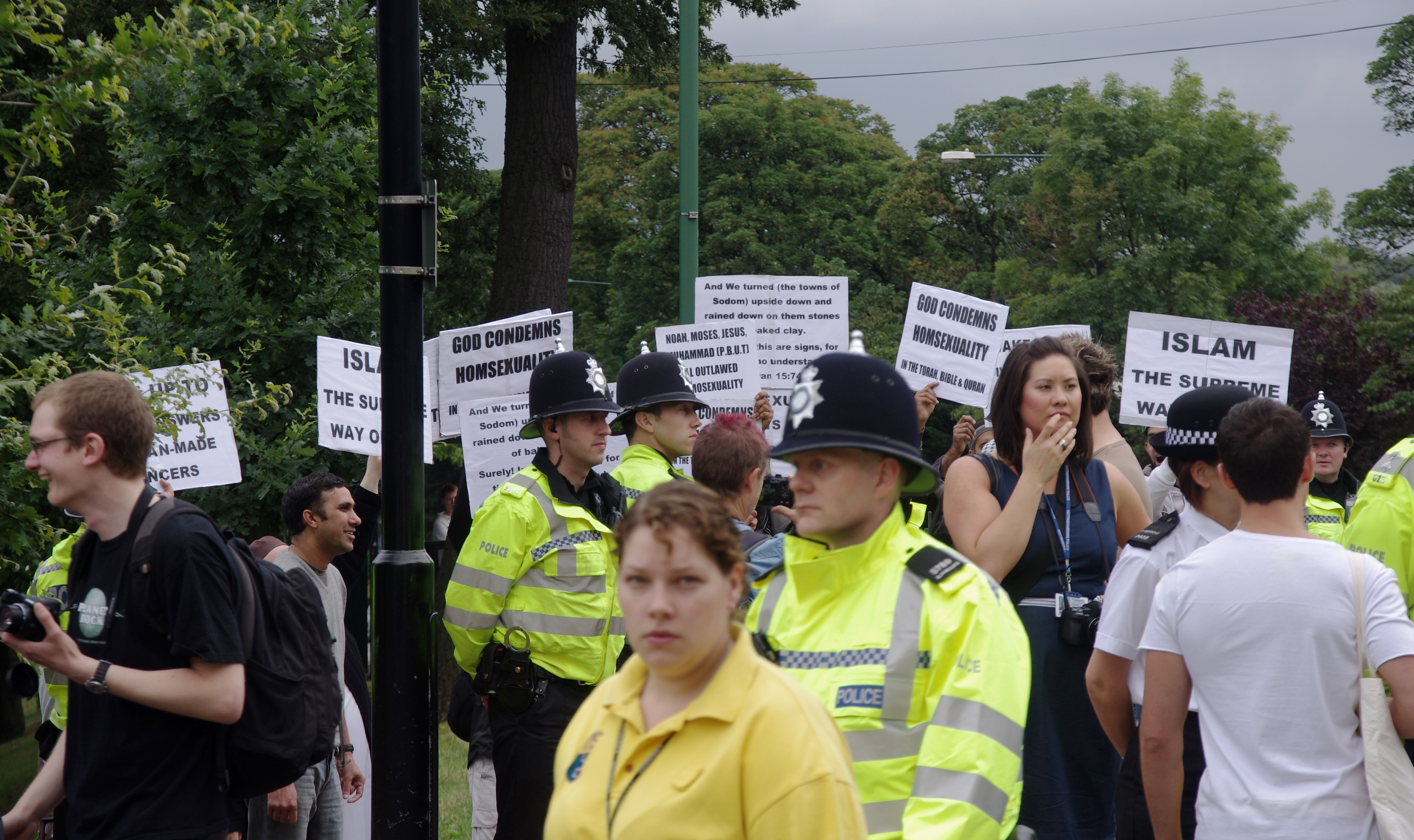 The Nottingham Pride march from the Nottingham Arboretum to the Forest Recreatiom Ground passes from Mansfield Road into the Rec ground, past a group of Islamic protestors.